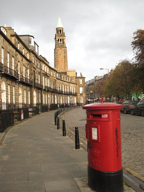 Coates Crescent View eastward towards St George's West Church on Shandwick Place.